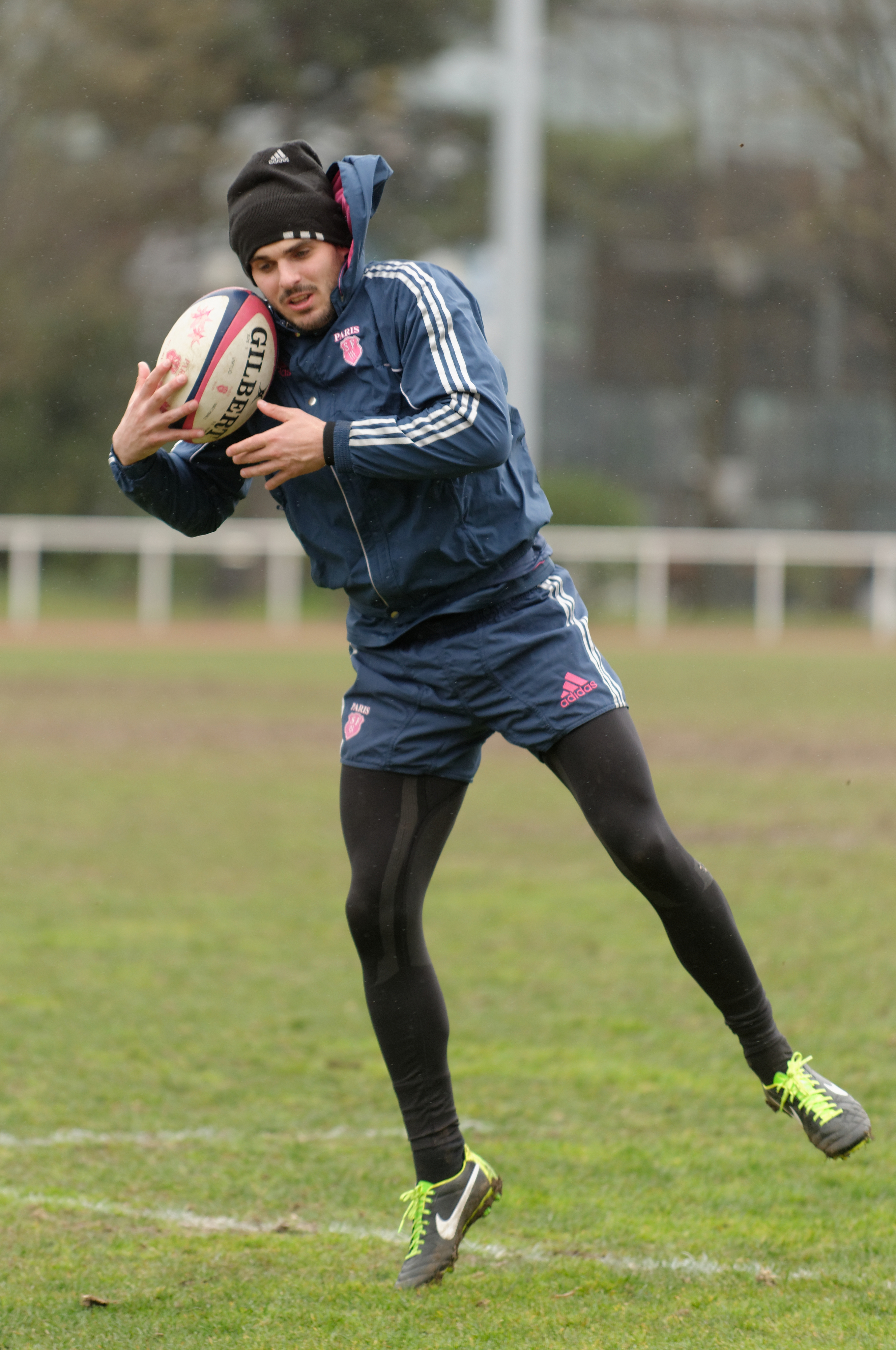 Hugo Bonneval practices fielding a high ball during the Stade Français training session held at the Cité Internationale Universitaire, Paris on 11 April 2013.